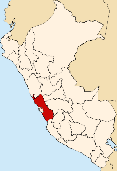 Location of the Lima region in Peru.